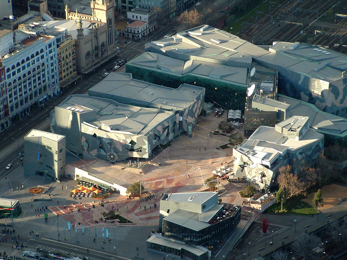 Federation Square from Eureka Tower Skydeck, August 2007.